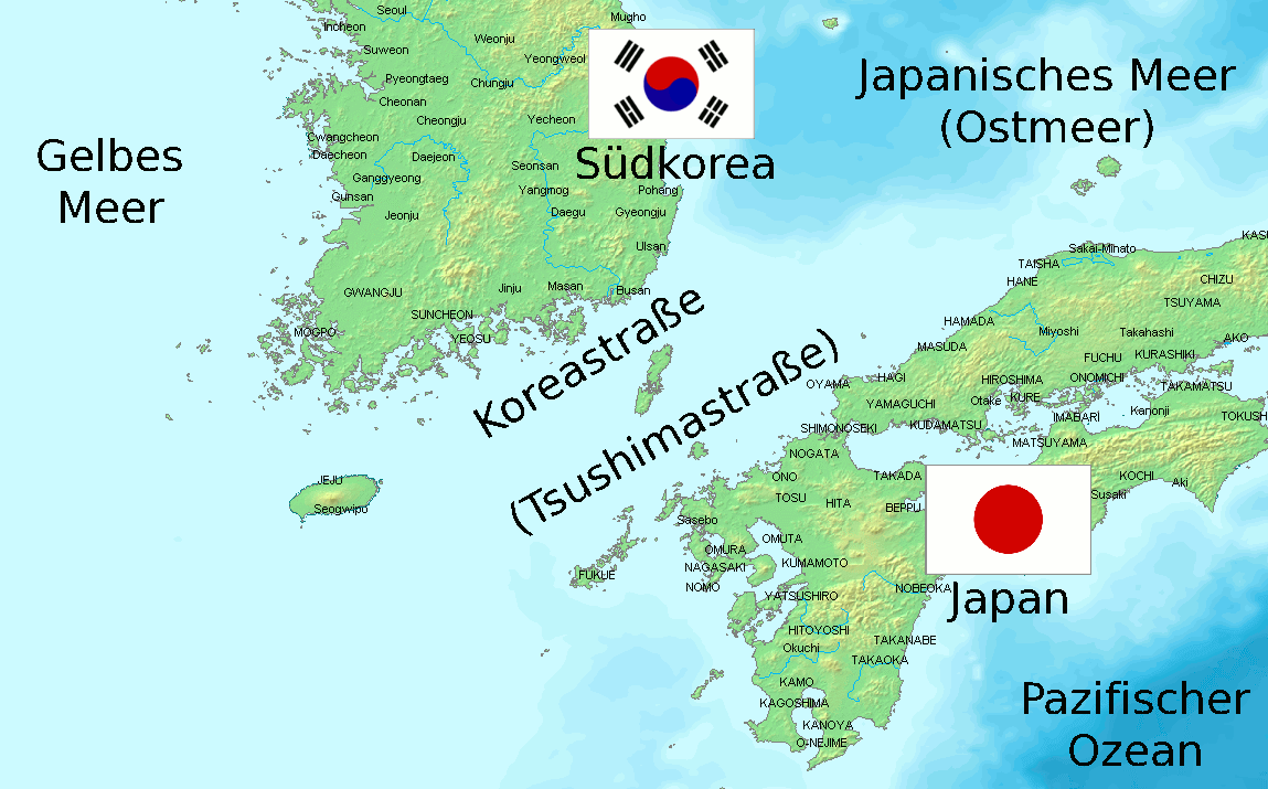 A in German labeled map of the Korea Strait